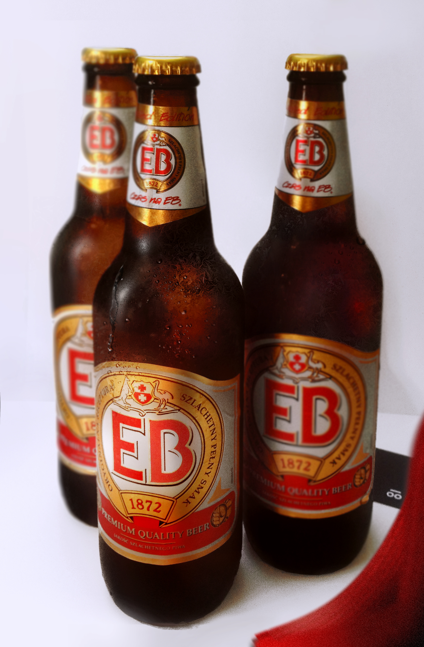 Three frosted bottles of Polish EB beer with labels.